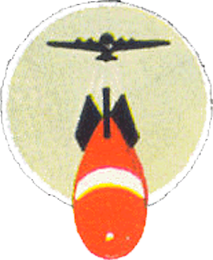 Emblem of the 316th Bombardment Squadron (World War II)